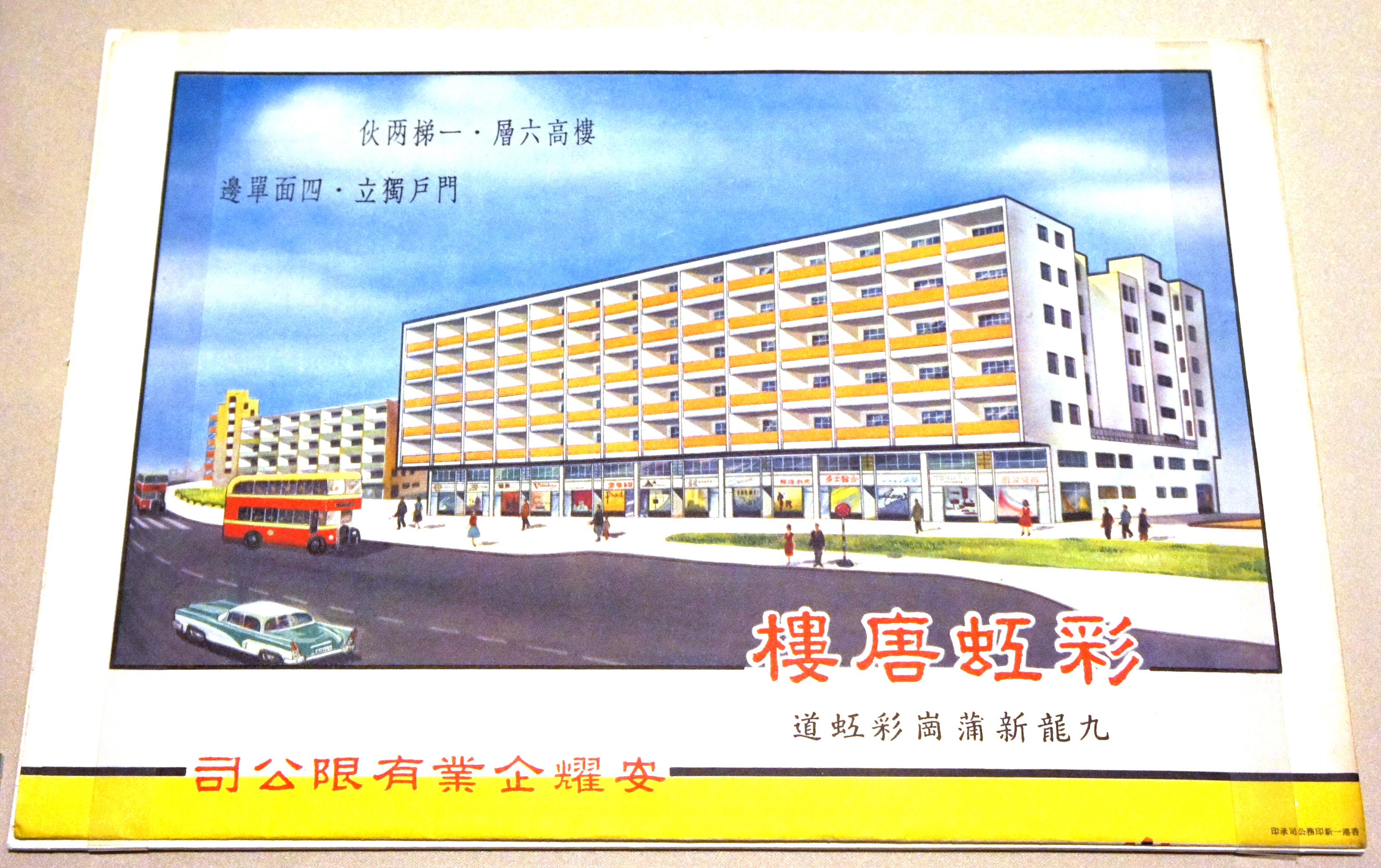 A copy of the sales brochure of Choi Hung Building, Hong Kong (1960s). An exhibit of the Hong Kong Museum of History.